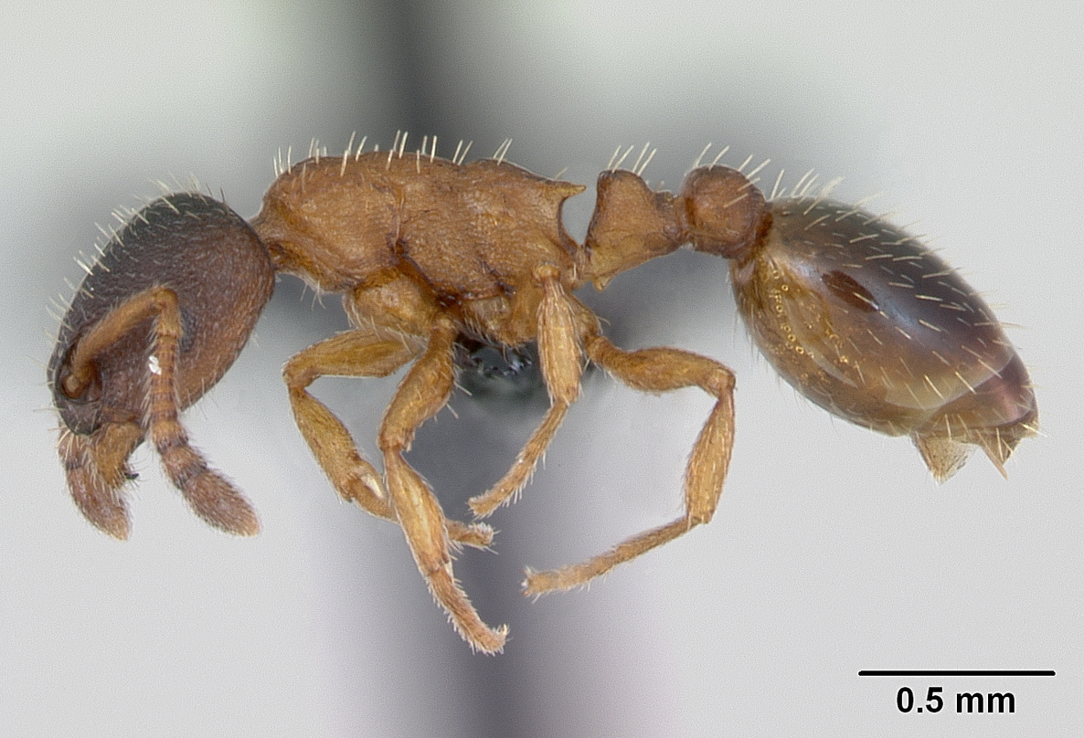 Profile view of ant Leptothorax muscorum specimen casent0173190.